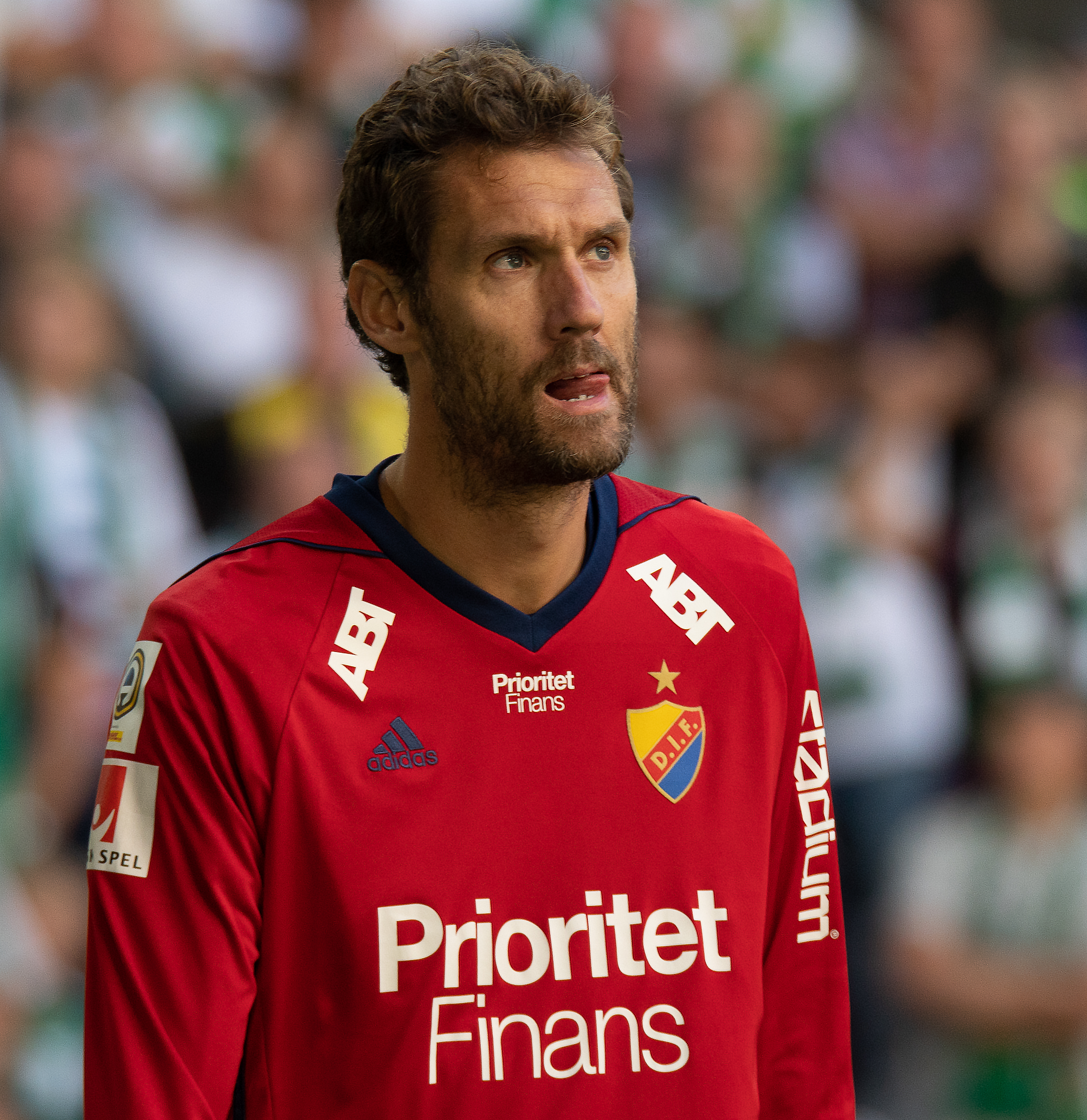 Hammarby IF - Djurgården IF 2018-09-03